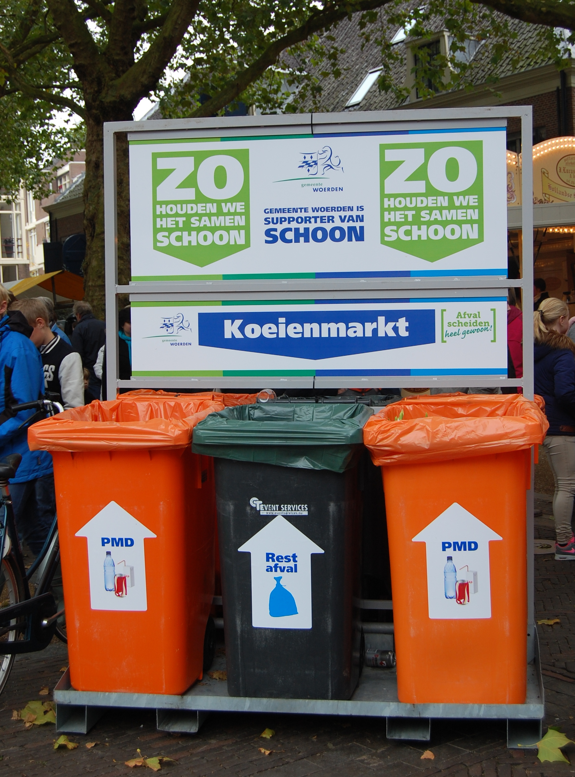 Garbage separation on yearly market in Woerden